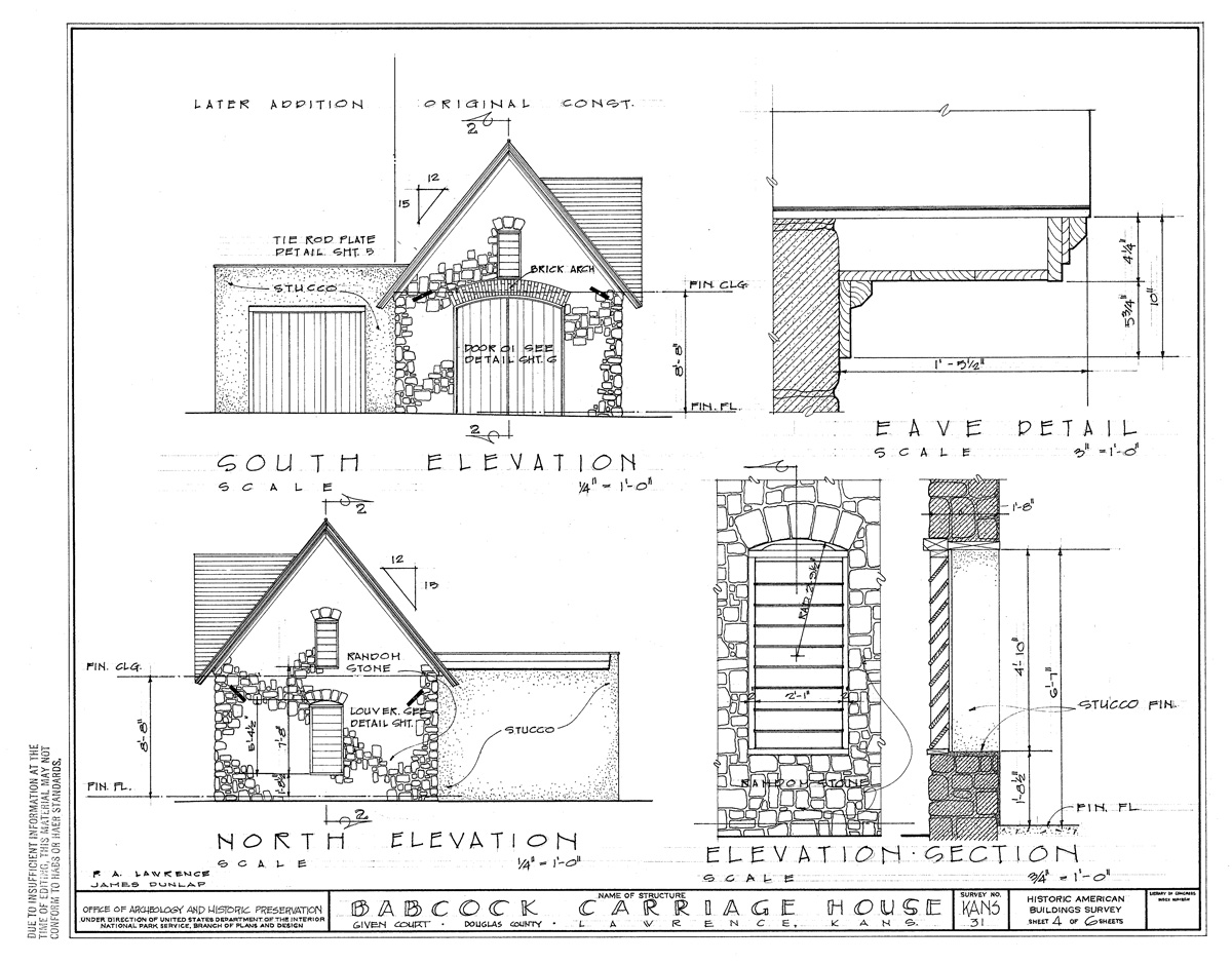 Source: Library of Congress HABS KANS,23-LAWR,3- Creator: National Park Service, HABS program